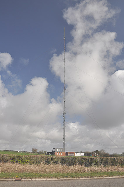 St Hilary Transmission Mast ITV's Channel 10 station was sited at St Hilary Down between Cardiff and Swansea at 413 ft above sea level and serves the area surrounding the Severn estuary and the Bristol Channel, including South Wales,Monmouthshire, Somerset, parts of Gloucestershire and other counties. It would have been preferred to have a mast height of 1,000 ft. but because of the nearby Rhoose Airport the height was restricted to 750 ft. The site opened for programme service on 14th January 1958 though there was some public disappointment about the comparative grades of service in some shielded locations in the deeper valleys of South Wales and in low-lying parts of Bristol and Bath. This subsequently led to the use of well-designed receiving aerials and more sensitive 'fringe' area receivers have to some extent overcome the low signal strength and 'ghost' images experienced in such localities.